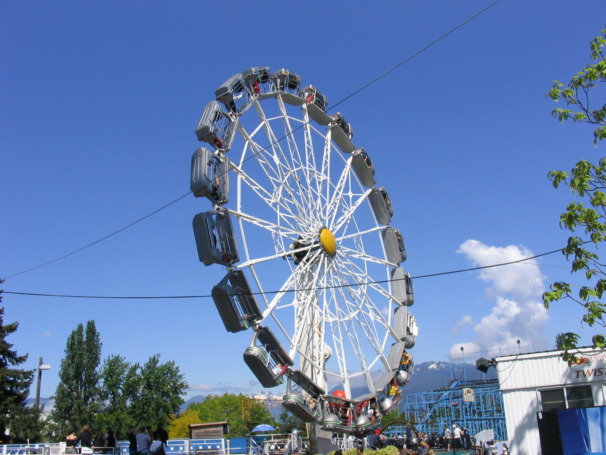 Enterprise.